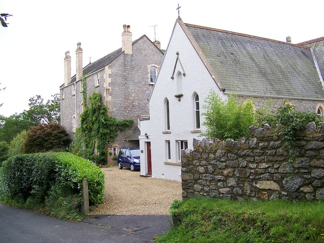 Former Nunnery, Chudleigh Until recently this building was part of the Nunnery for Brigittine nuns. (see also Marley House, in the parish of Rattery, Devon & Wikipedia:Syon Monastery